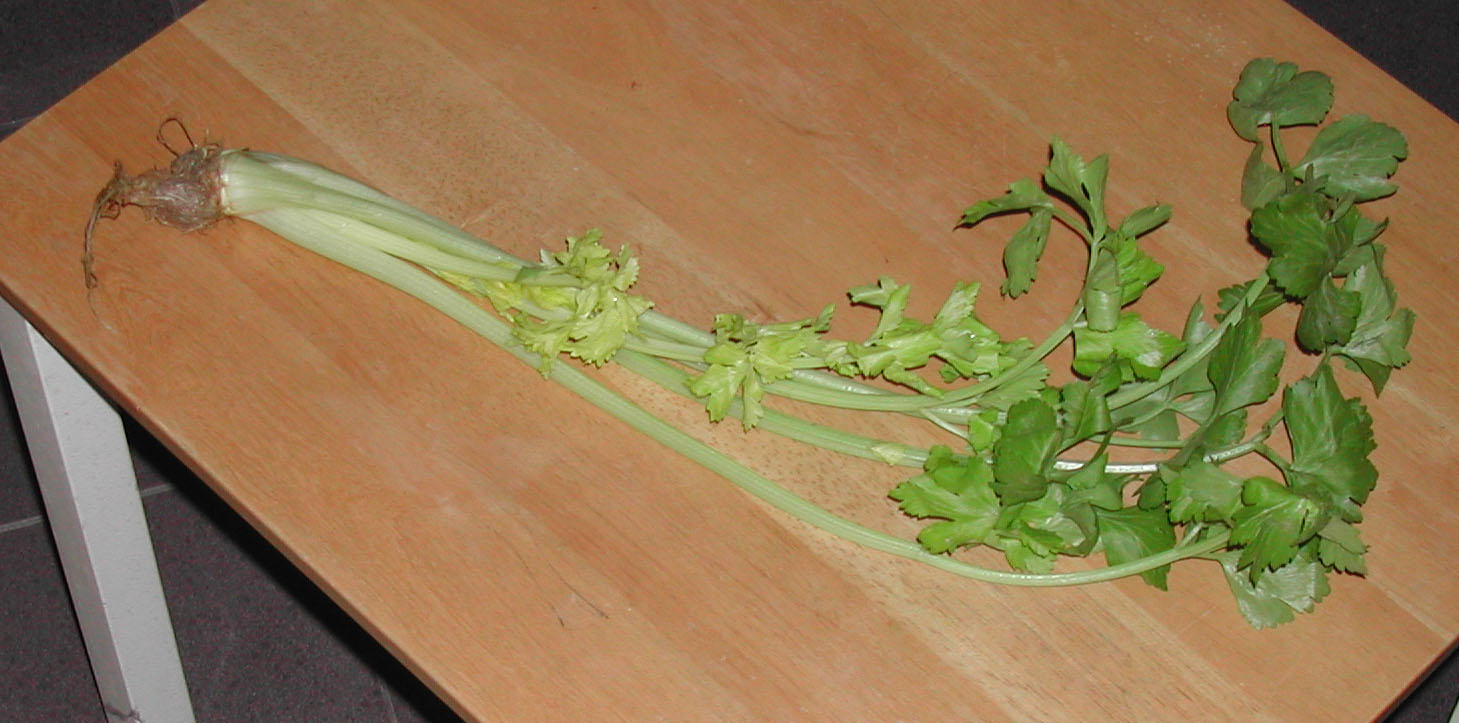 Chinese Celery, photo taken in Hong Kong